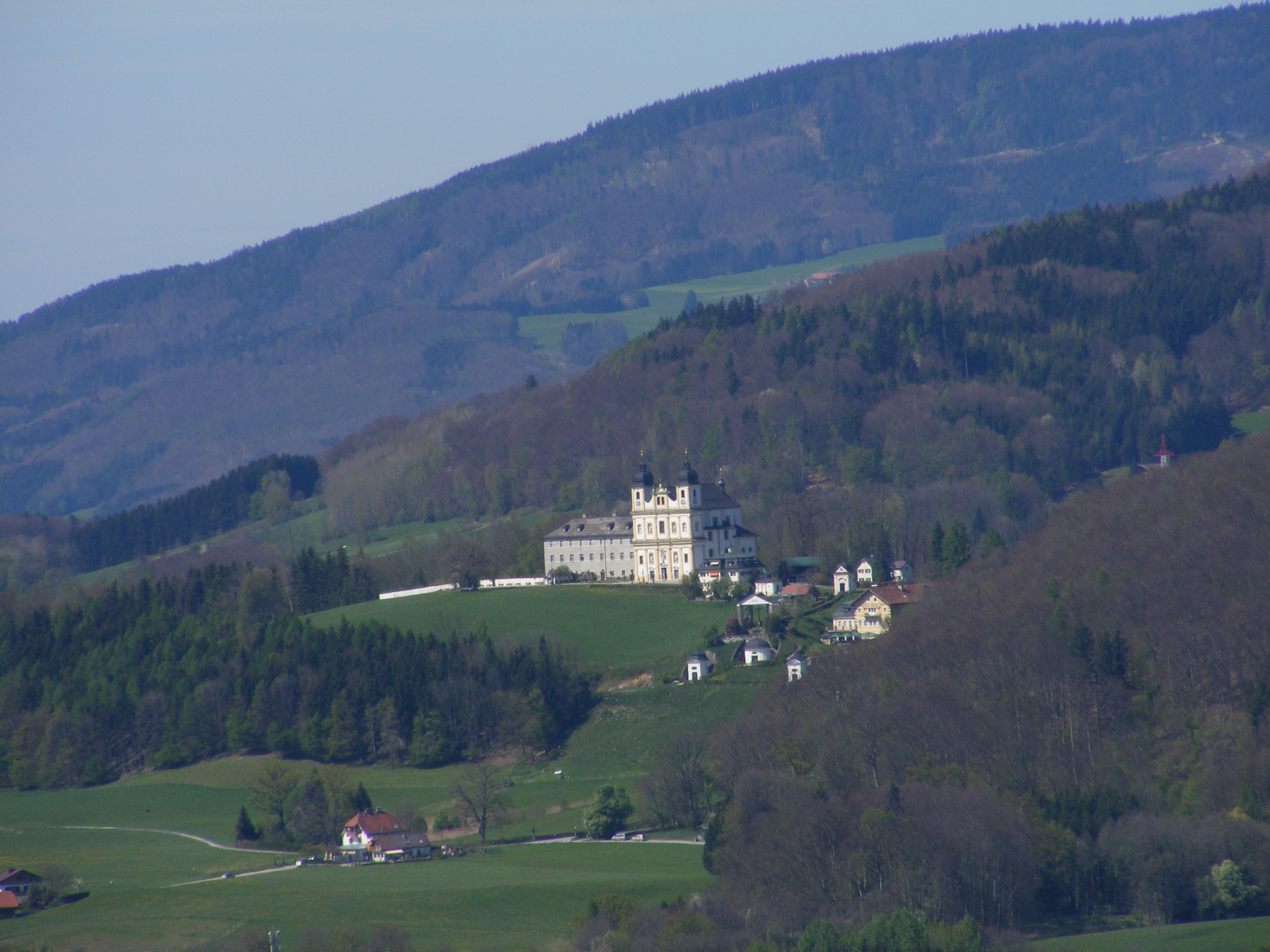 Maria Plain on mountain Plainberg, municipality of Bergheim, state of Salzburg, Austria; seen from Kapuzinerberg, a mountain in the center of the city of Salzburg The basilica of Maria Plain is one of the major pilgrimage churches in the state of Salzburg.